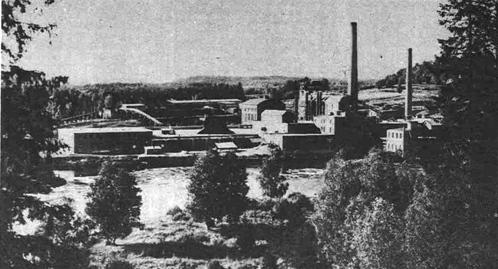 Leppäkoski paper mill in Harlu, former Finnish Karelia, in 1938.